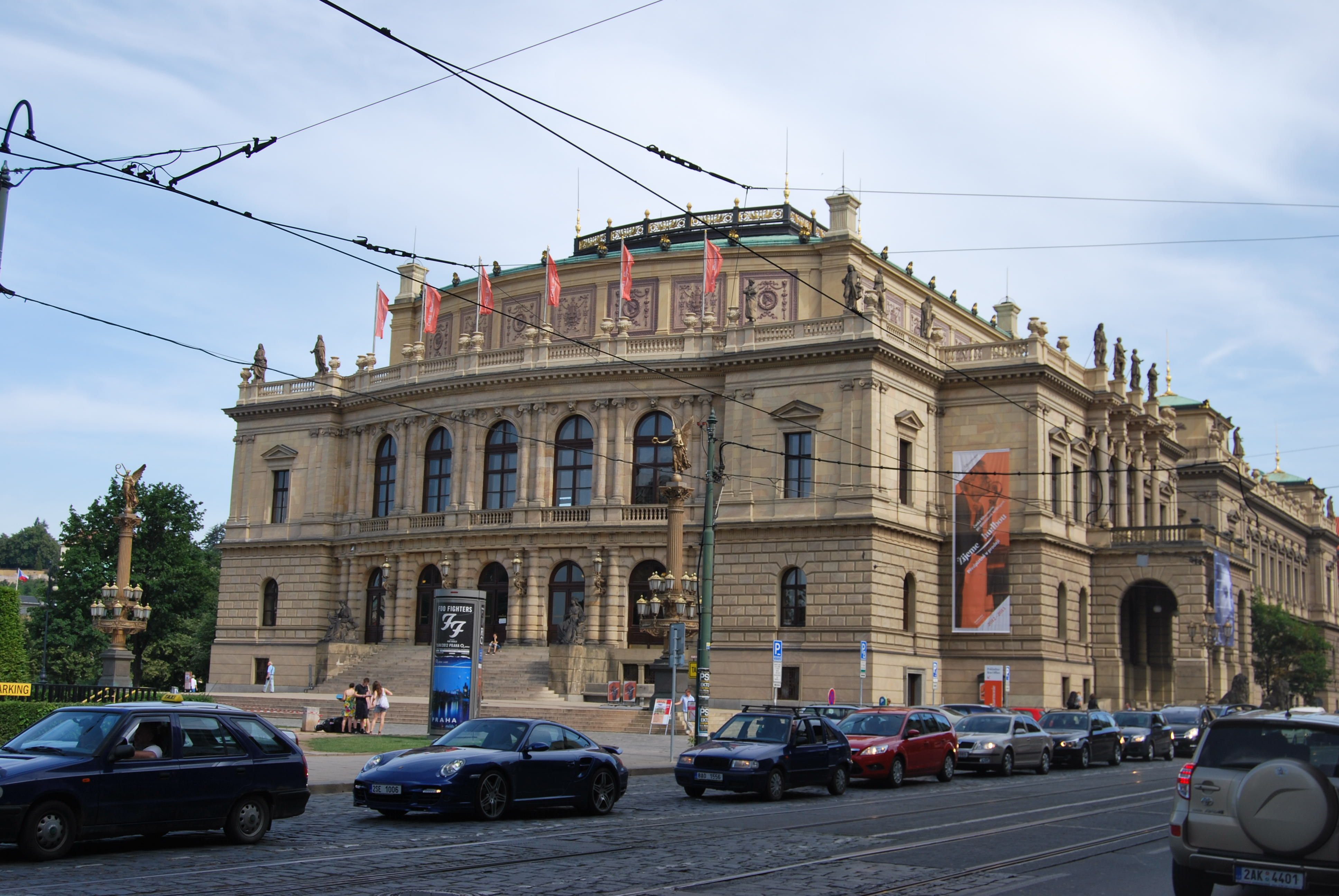 Rudolfinum